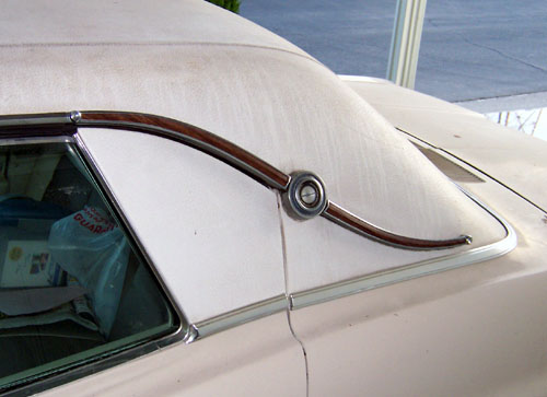 Landau bar on a 1967 Ford Thunderbird. Photo by User:Morven.